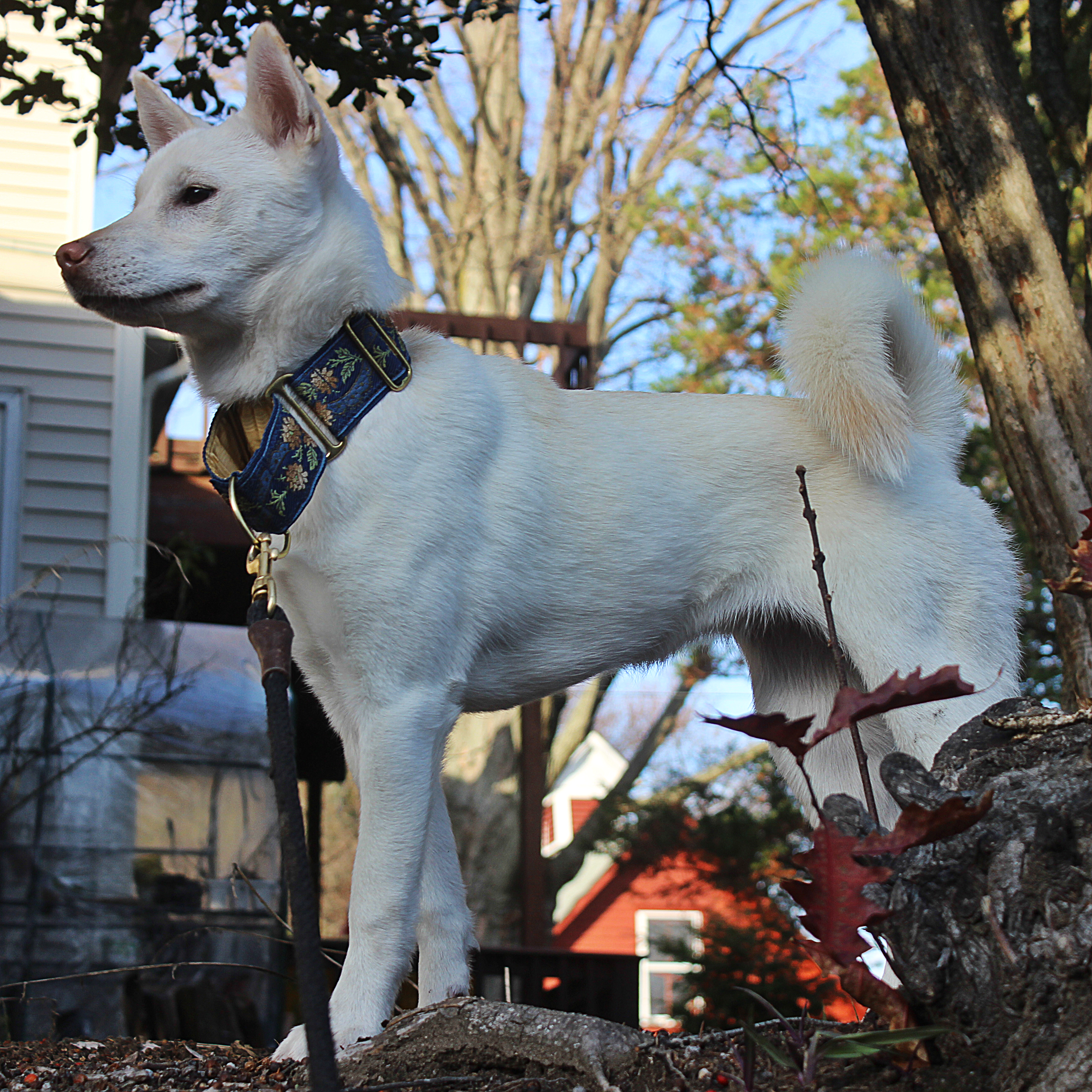 Kishu Ken puppy Fionna at 7 months